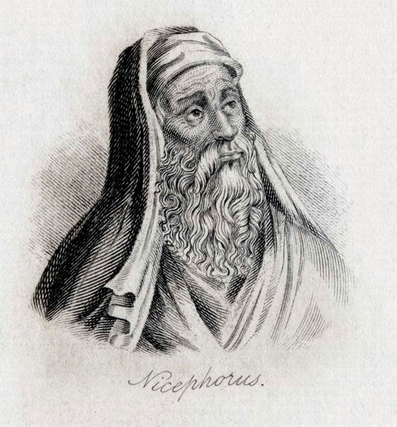 Nicephorus Gregoras, Byzantine polymath of 14th century